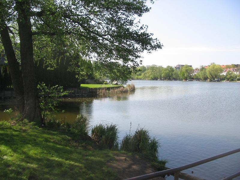 Grimnitzsee with the mouth of the Grimnitzgraben (canal), coming from the river Havel. The Grimnitzsee is a lake in Berlin-Wilhelmstadt, Germany, besides the Havel. Its surface area is 7,22 ha. The lake is listed as Protected area (german: Landschaftsschutzgebiet).